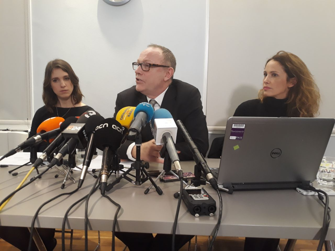 Lawyers Jessica Jones, Ben Emmerson and Rachel Lindon take case of Catalan political prisoners to UN